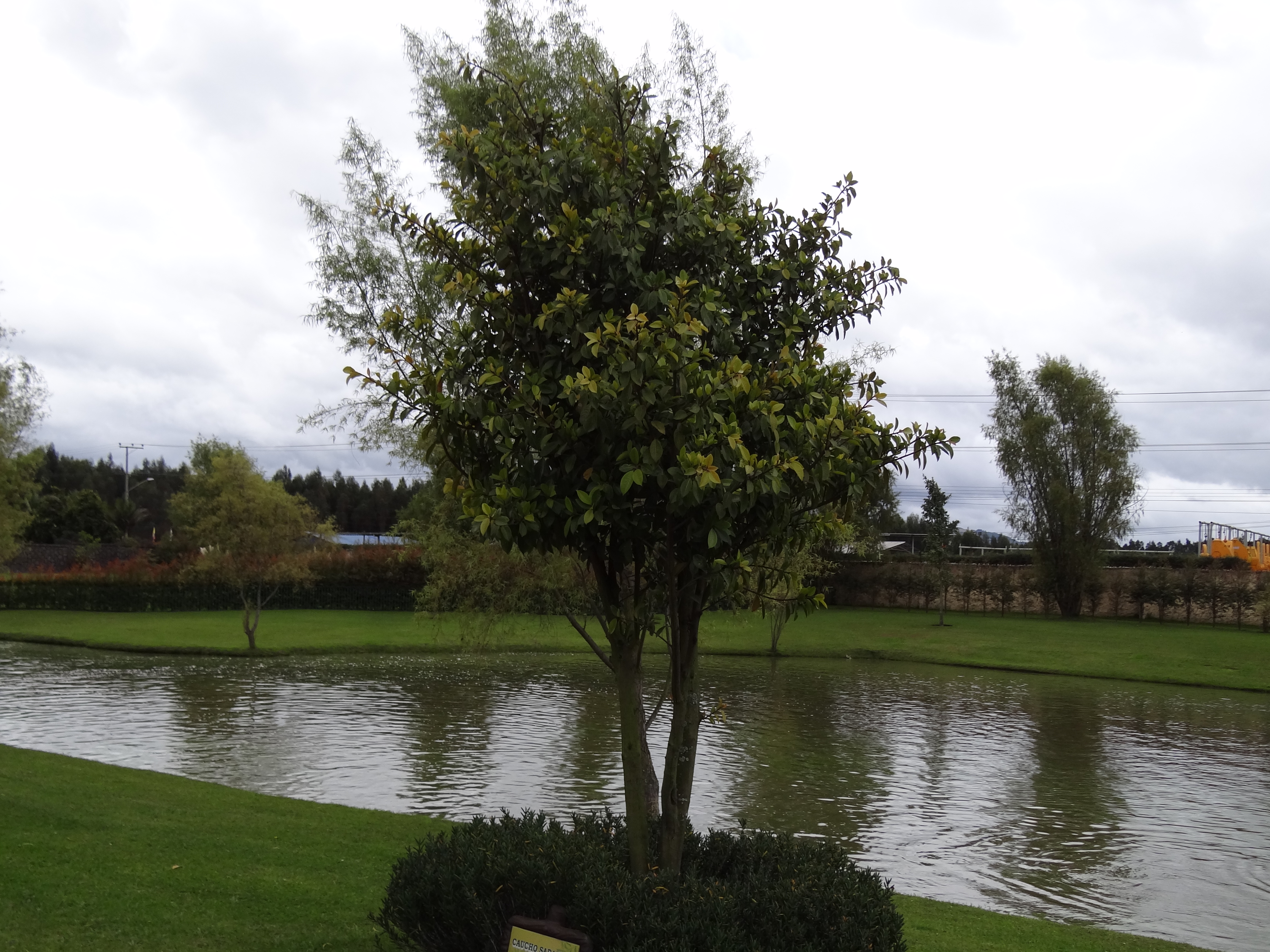 Ficus andicola (caucho sabanero)